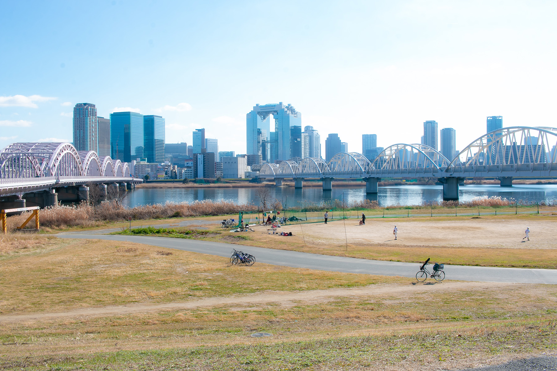 Yodogawa Riverside Park (Yodogawa Kasen Park Juso area).